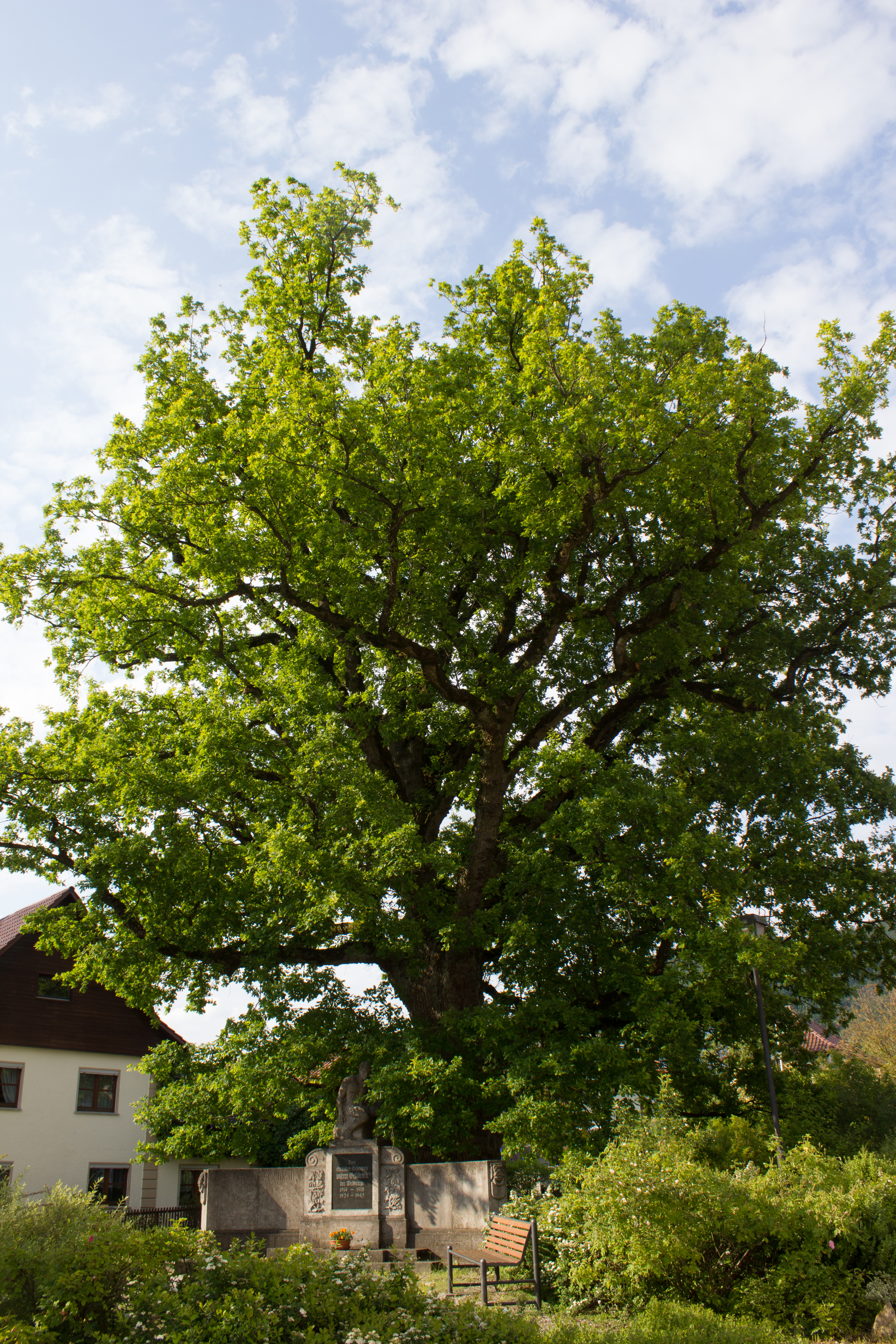 Protected Oak in Seibelsdorf, Marktrodach